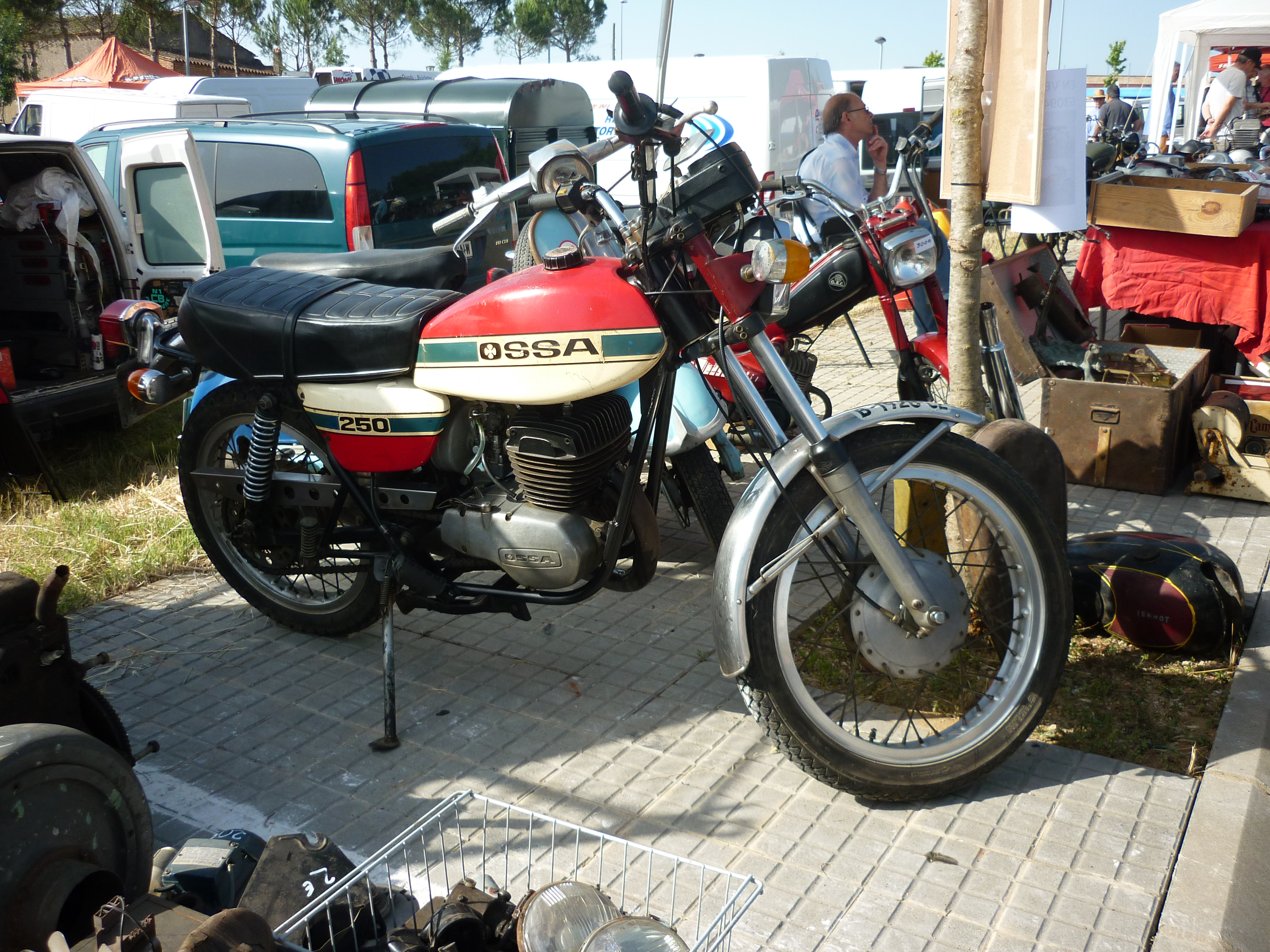 OSSA 250 Turismo, 1975